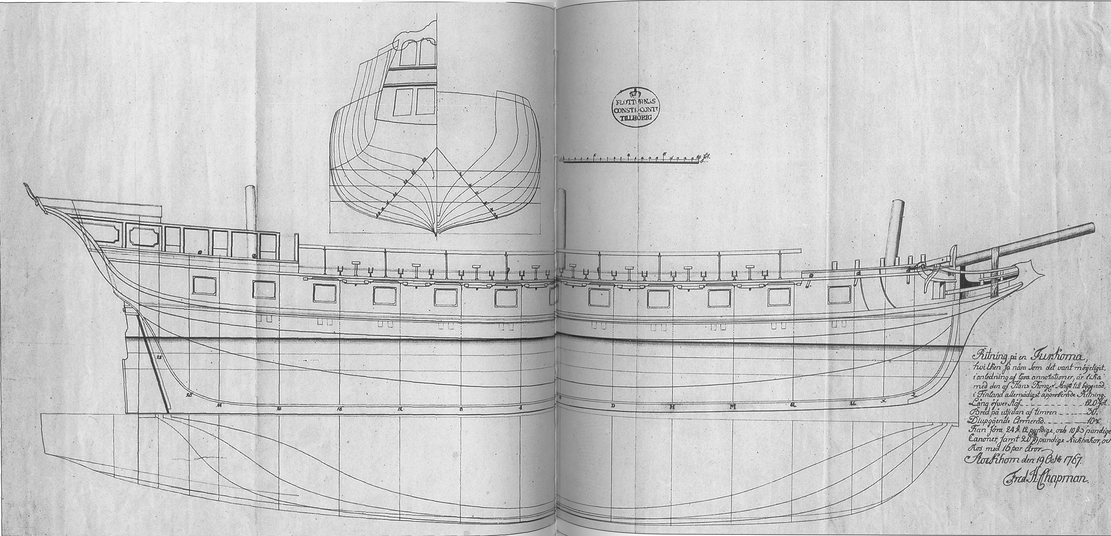 Profile drawing of a turuma by Fredrik Henrik af Chapman, 19 October 1767.